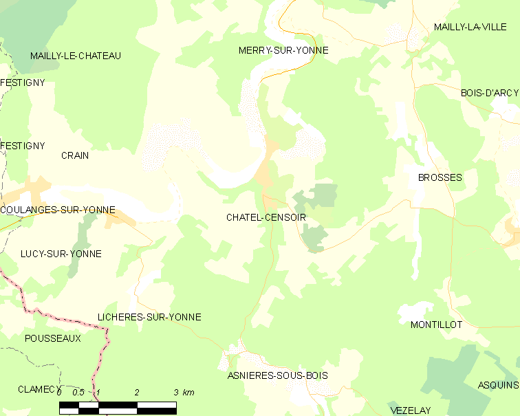 Map of French municipality Châtel-Censoir